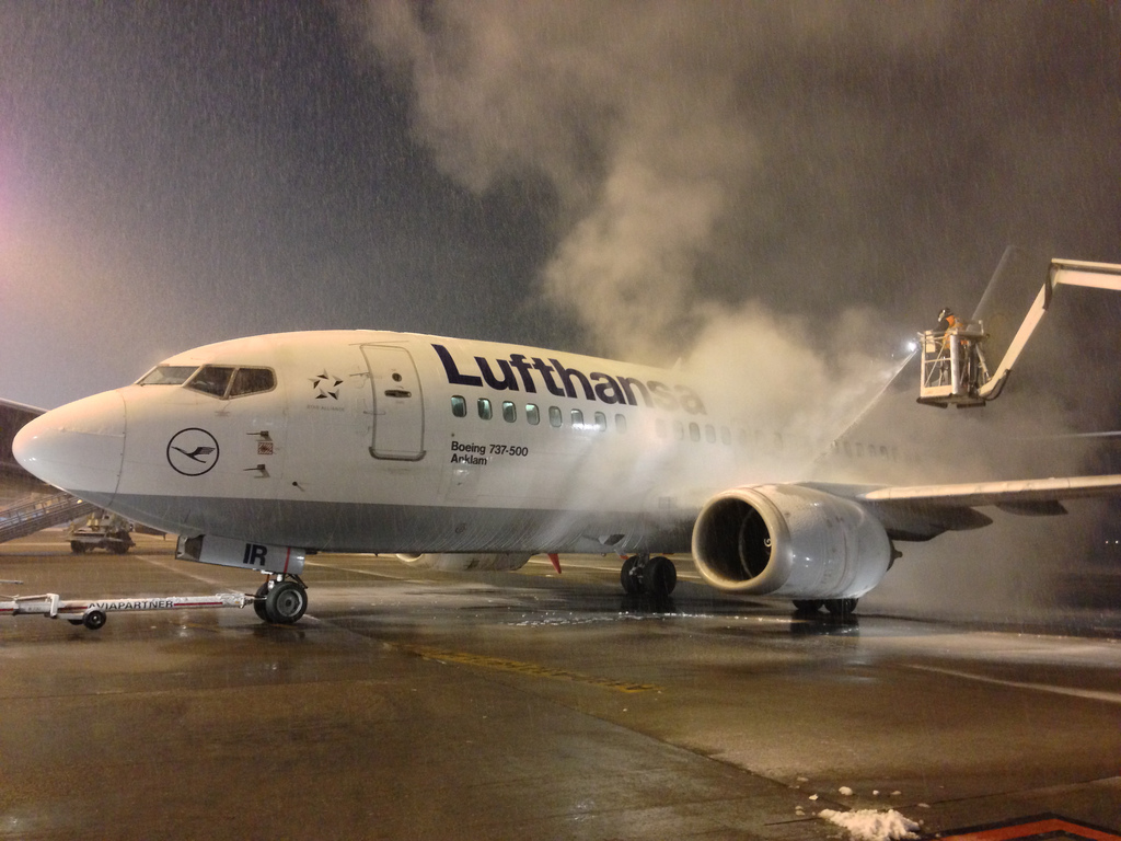 [ D-ABIR ] Boeing 737-500 Lufthansa - deicing during a snowfall in Turin Airport [ TRN / LIMF ]